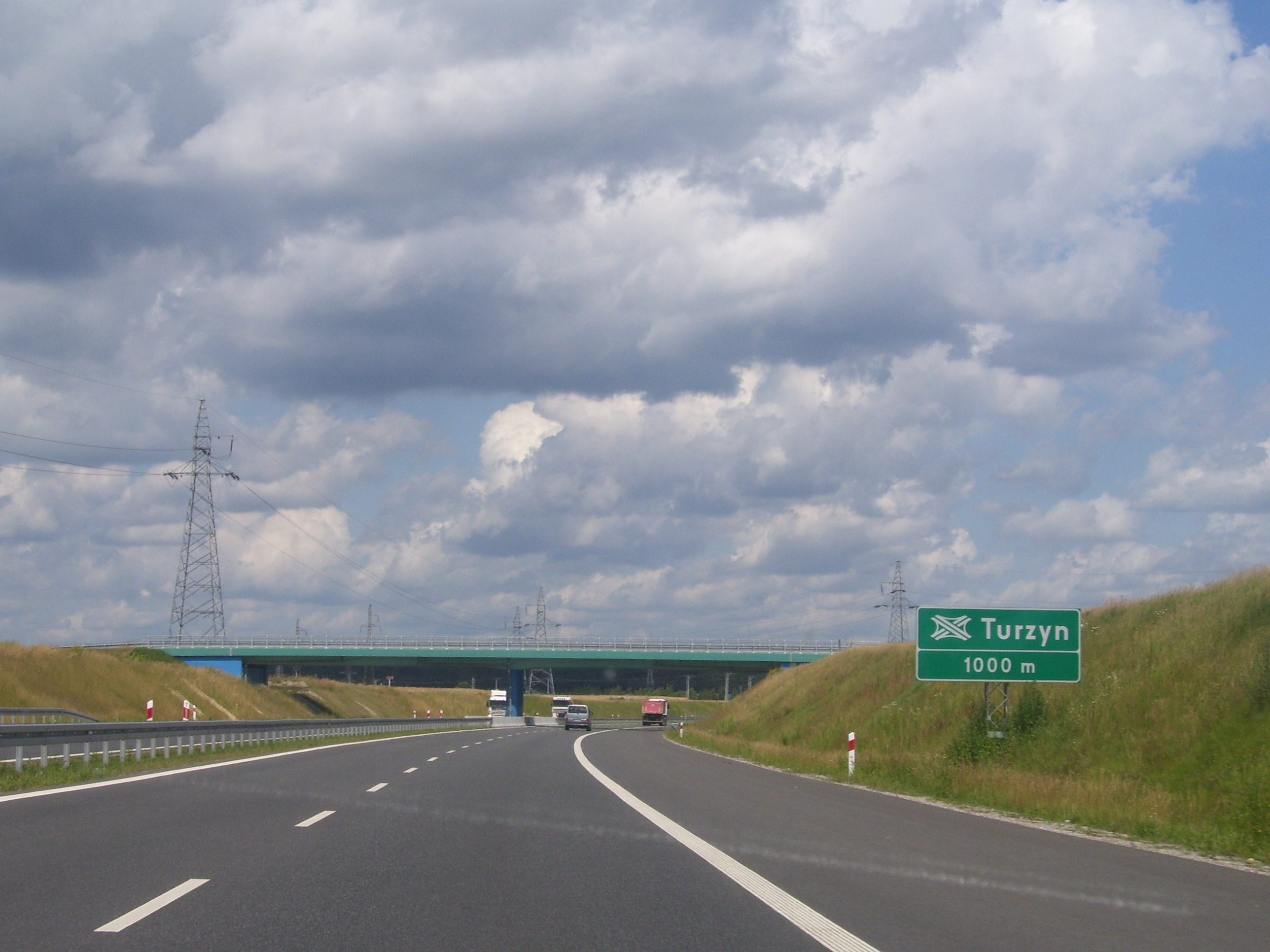 DK8 (Poland)